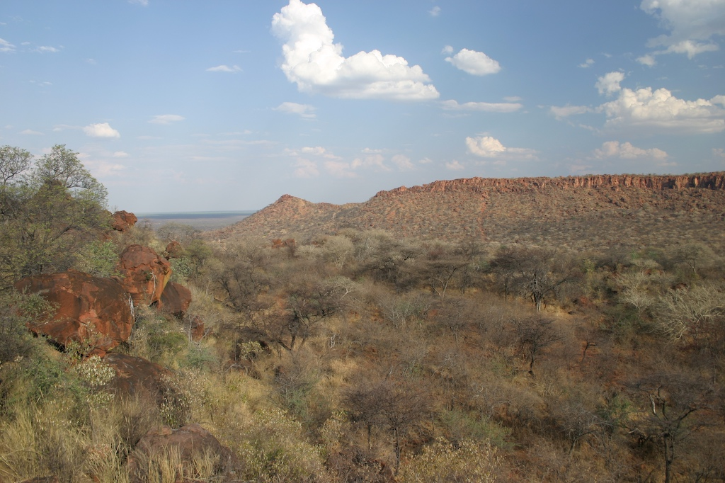 Waterberg